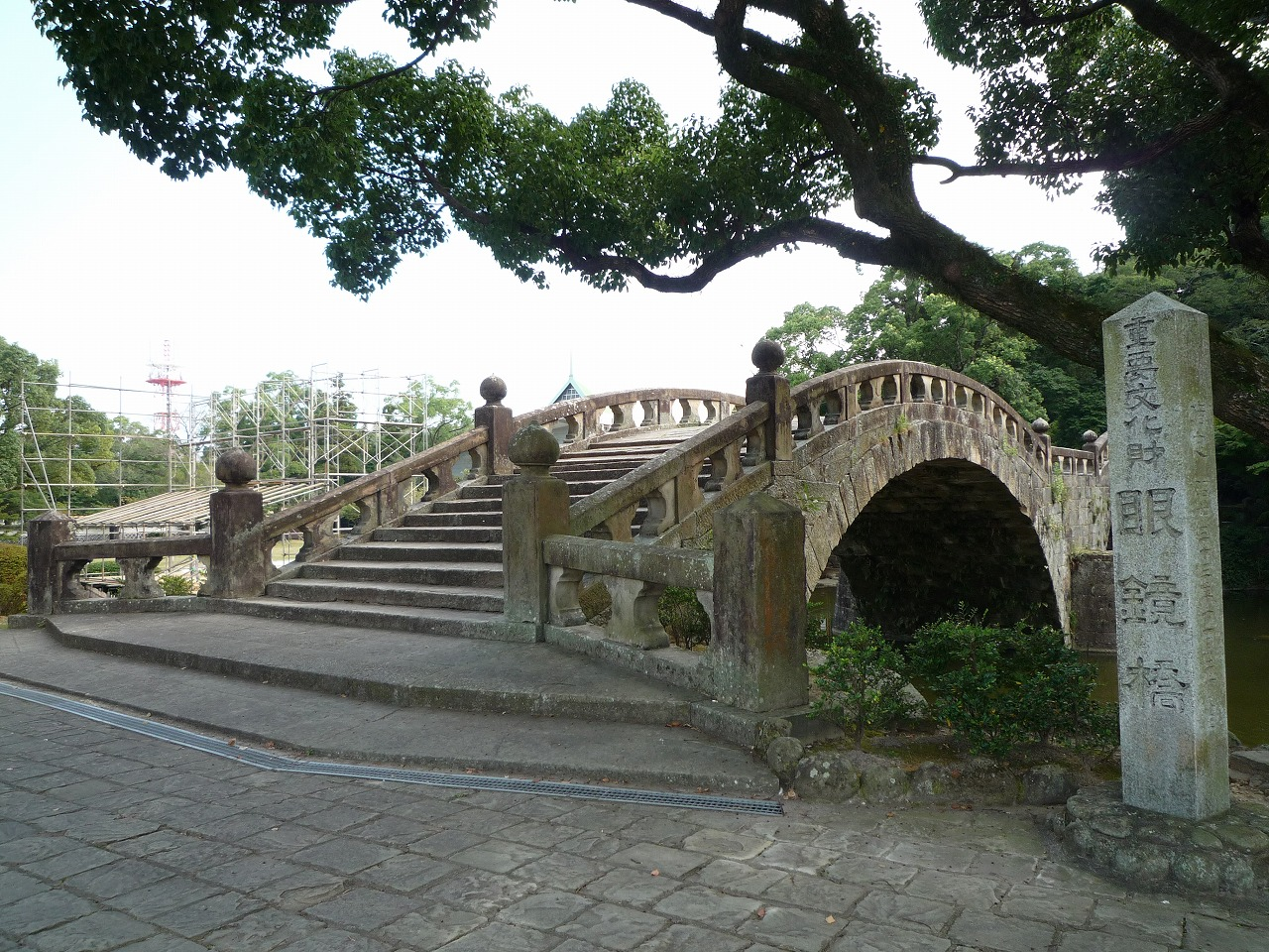 A monument of the spetacle or megane Bridge, Isahaya, Nagasaki